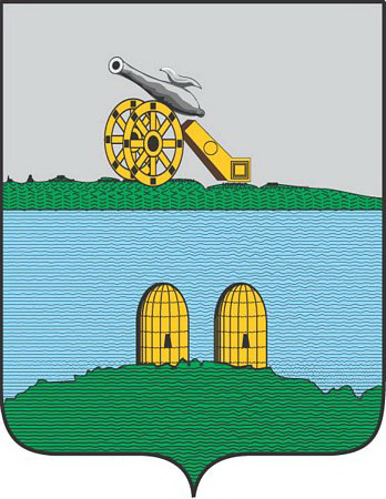 Roslavl (Smolensk oblast), coat of arms (1780)